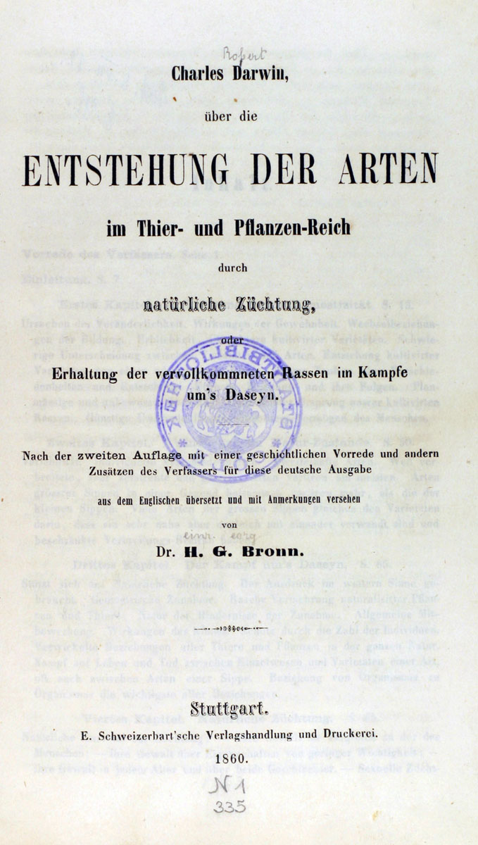 This is a scan of the historical document